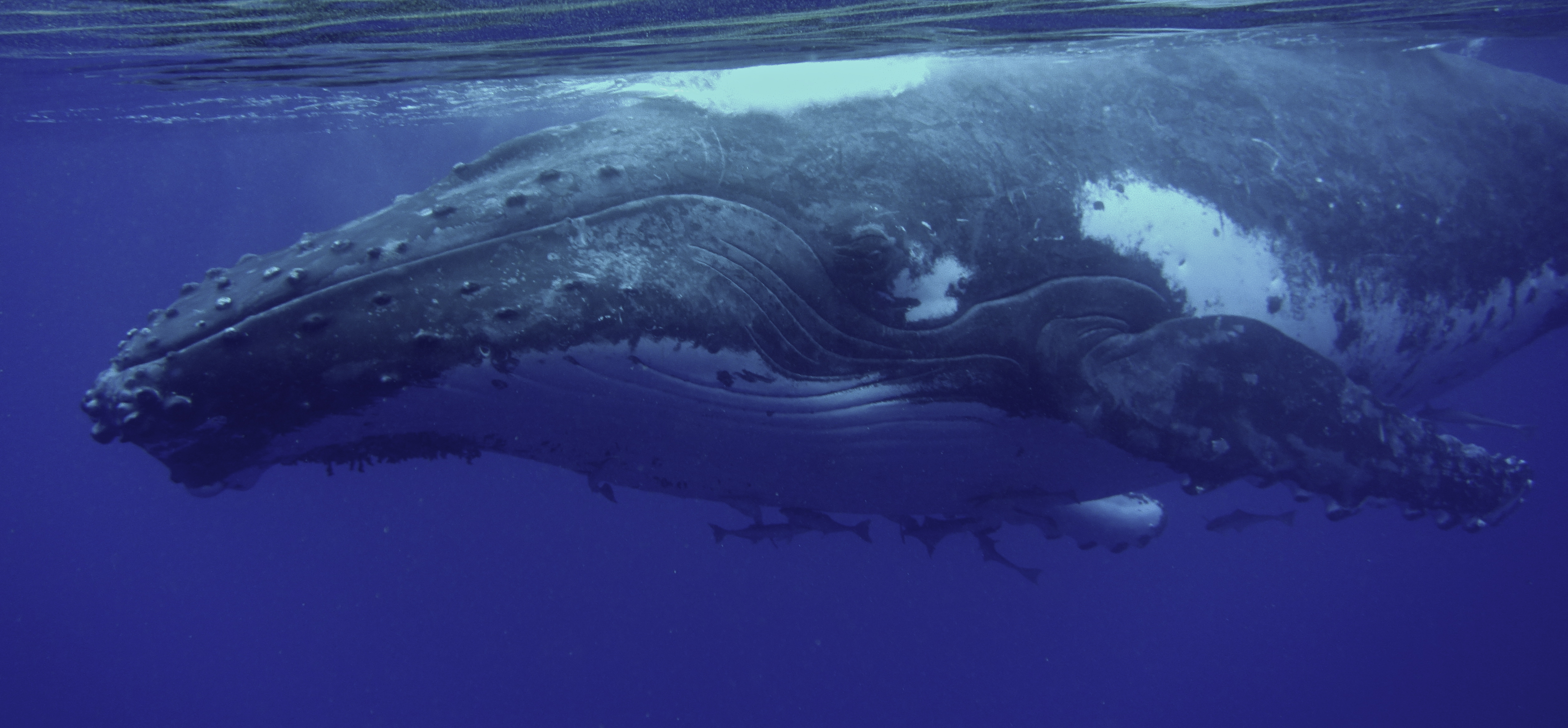 Young Male Humpback Whale-Megaptera novaeangliae